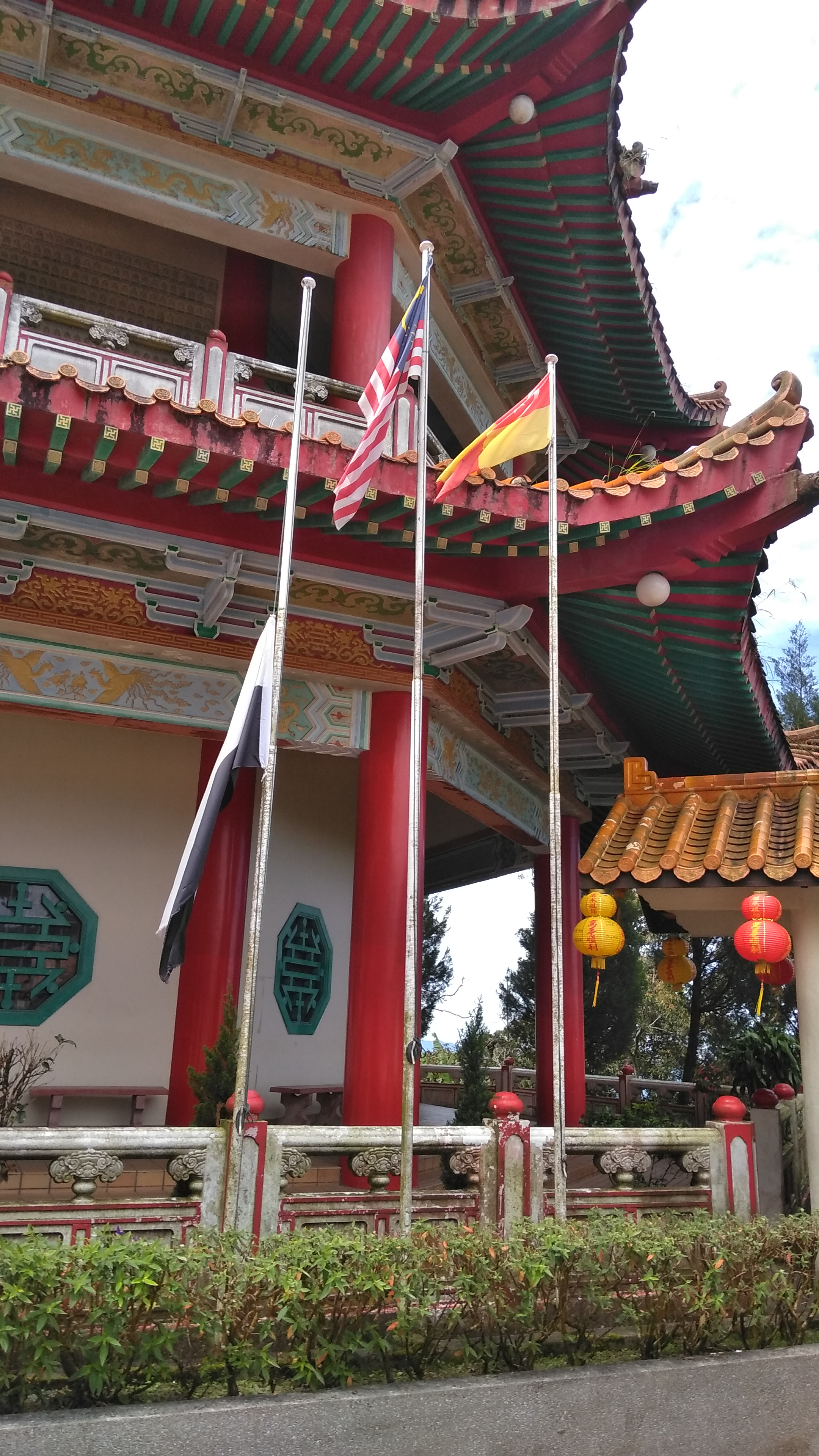 Flag of Pahang in Chin Swee Temple flown at half mast to mark the death of Sultan Ahmad Shah of Pahang. The flag of Malaysia and Selangor are not at half mast as Pahang observed longer mourning period.